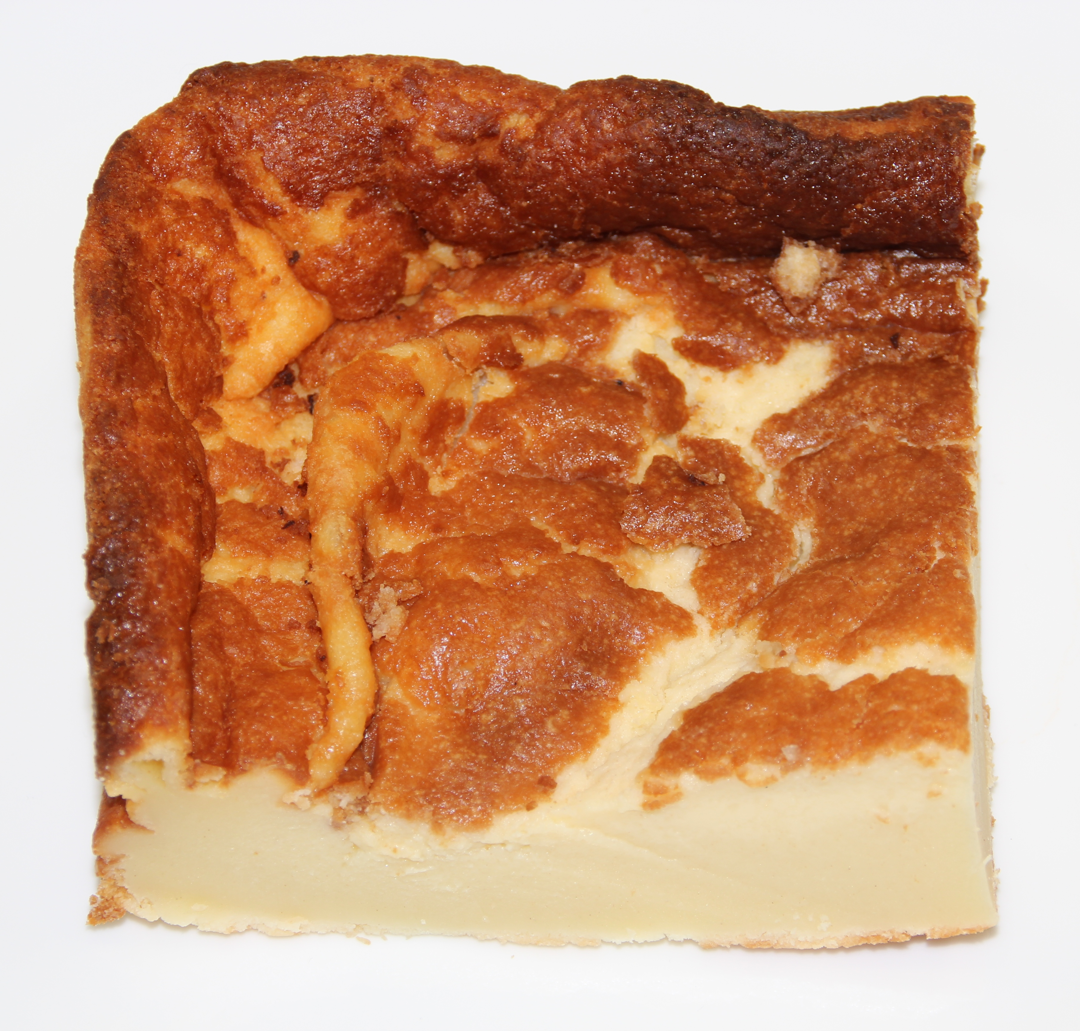 Slice of the french cake Far breton at the Salon de l'agriculture et de la nature de l'Essonne 2013 in Villebon-sur-Yvette, France.